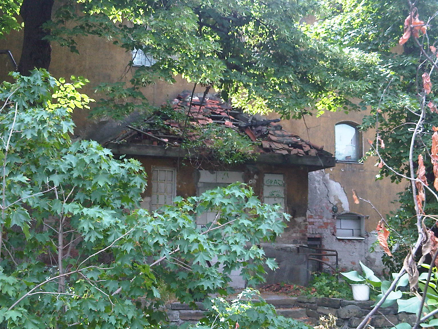 Nice building